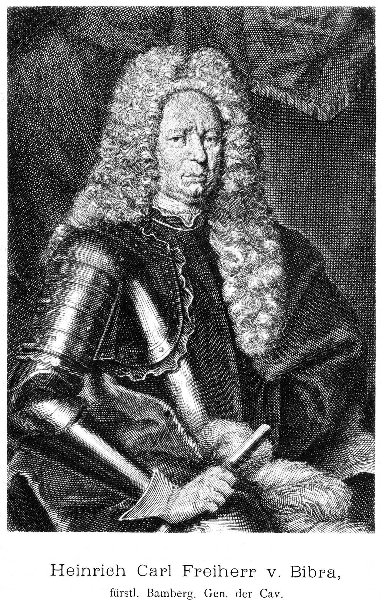 Heinrich Carl Frhr. von Bibra (aka Karl Siegmund) (1666 + 1734) Franconian Circles, Bamberg Generalfeldmarschalleutnant (Lieutenant General), father Prince-Bishop Heinrich of Fulda, builder of the Bibra Palais (Bibra Haus) in Bamberg